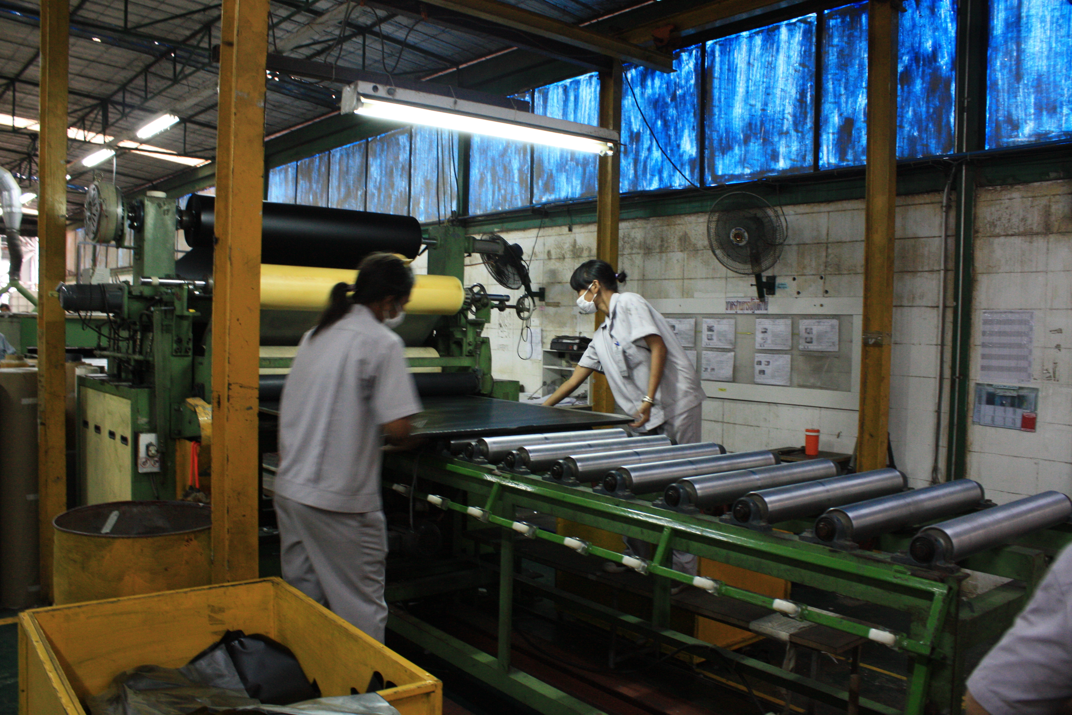 A typical factory in Chachoengsao.